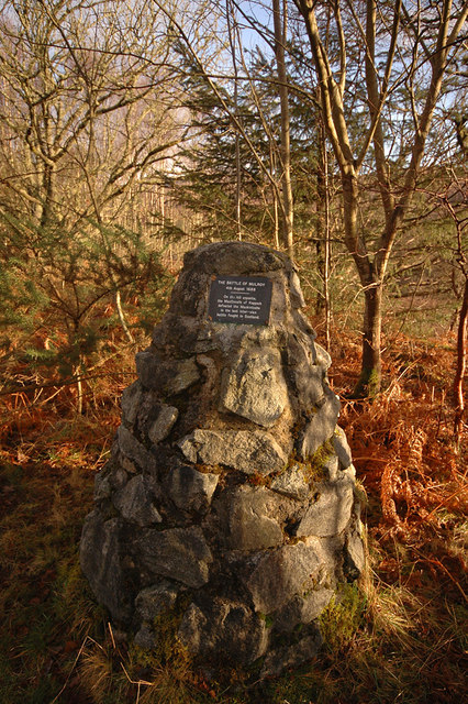 Cairn An inscription on a plaque on the cairn reads "The Battle of Mulroy 4th August 1688. On the hill opposite the MacDonells of Keppoch defeated the Mackintoshs in the last inter-clan battle fought in Scotland."